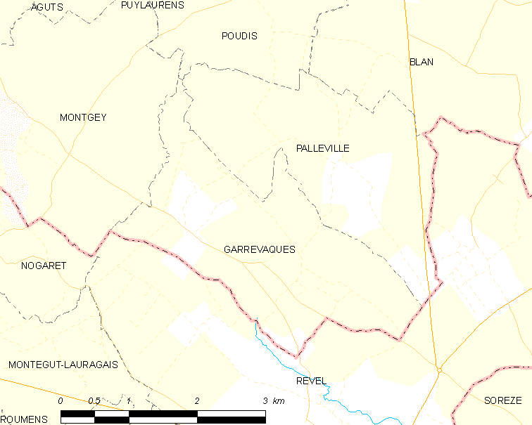 Map of French municipality Garrevaques